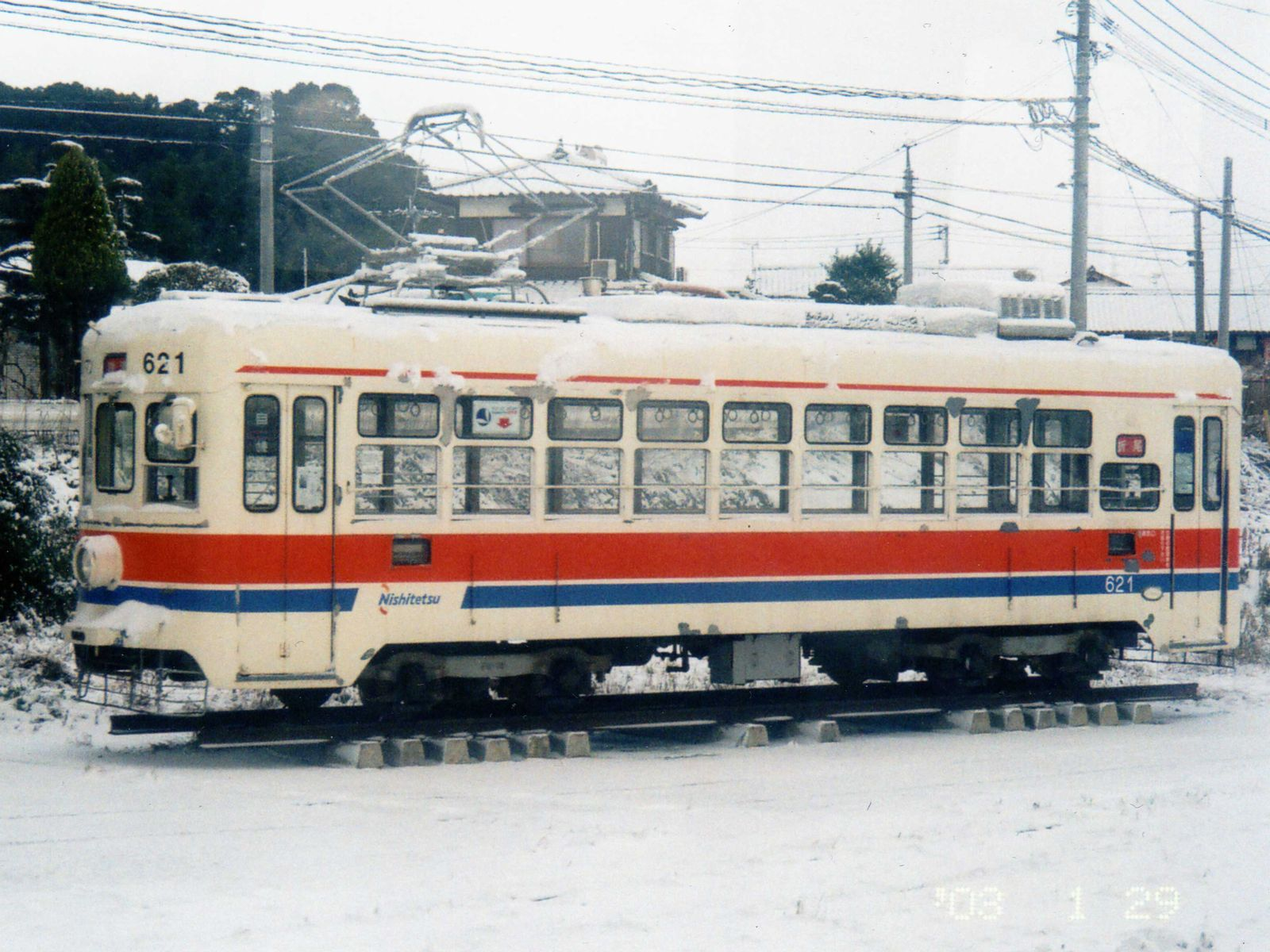 Nishinippon Railway ,EMU type 600 at Chikuzen-Yamae Sta.